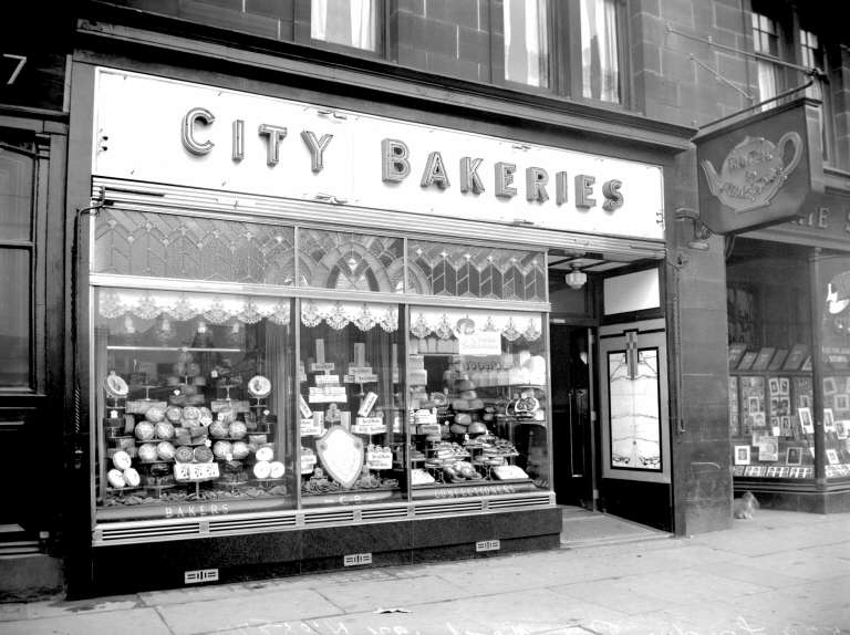 note cat and tiling on the entrance!